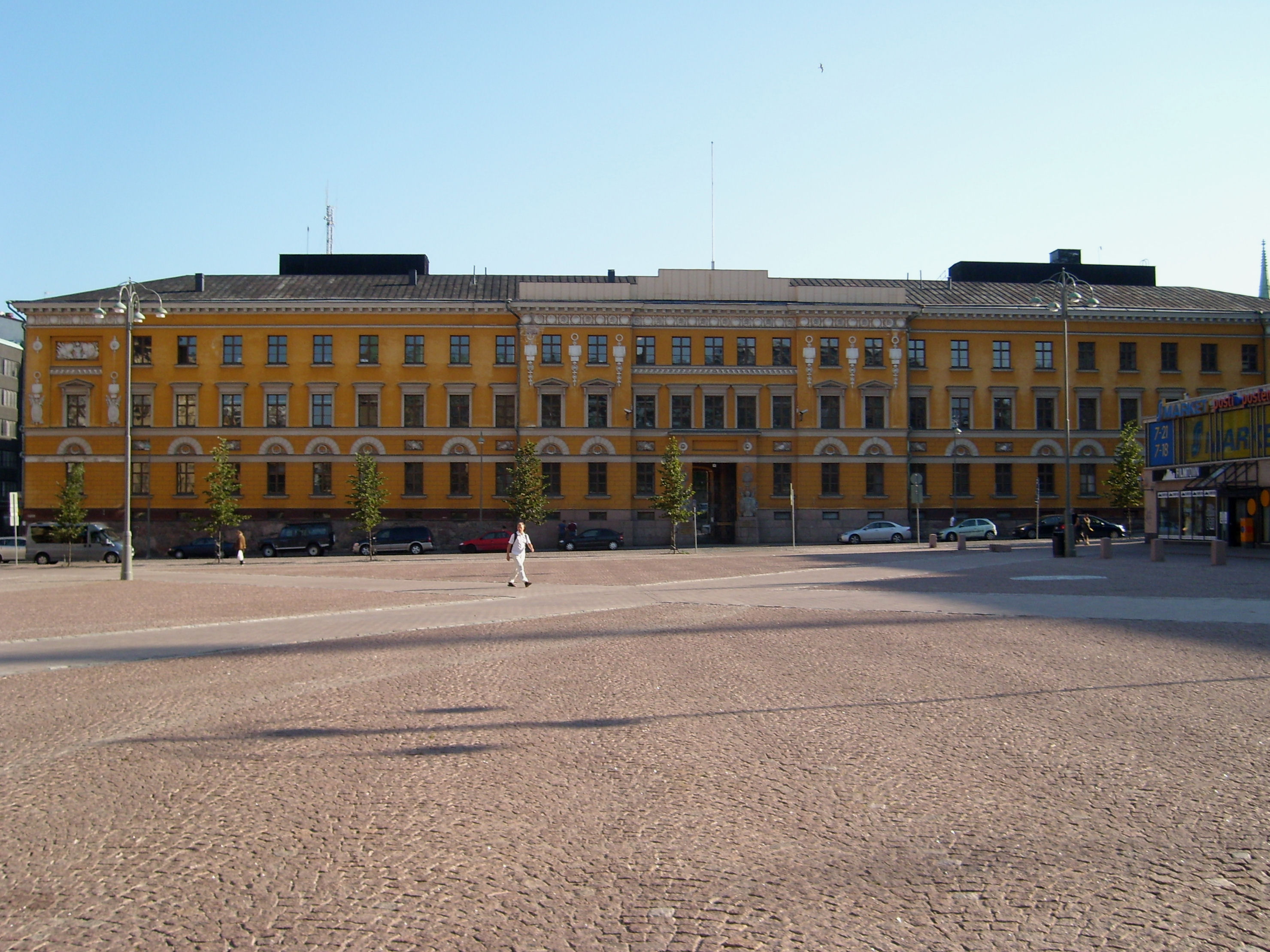 Main Building of the Finnish Ministry of Defence, Helsinki, Finland